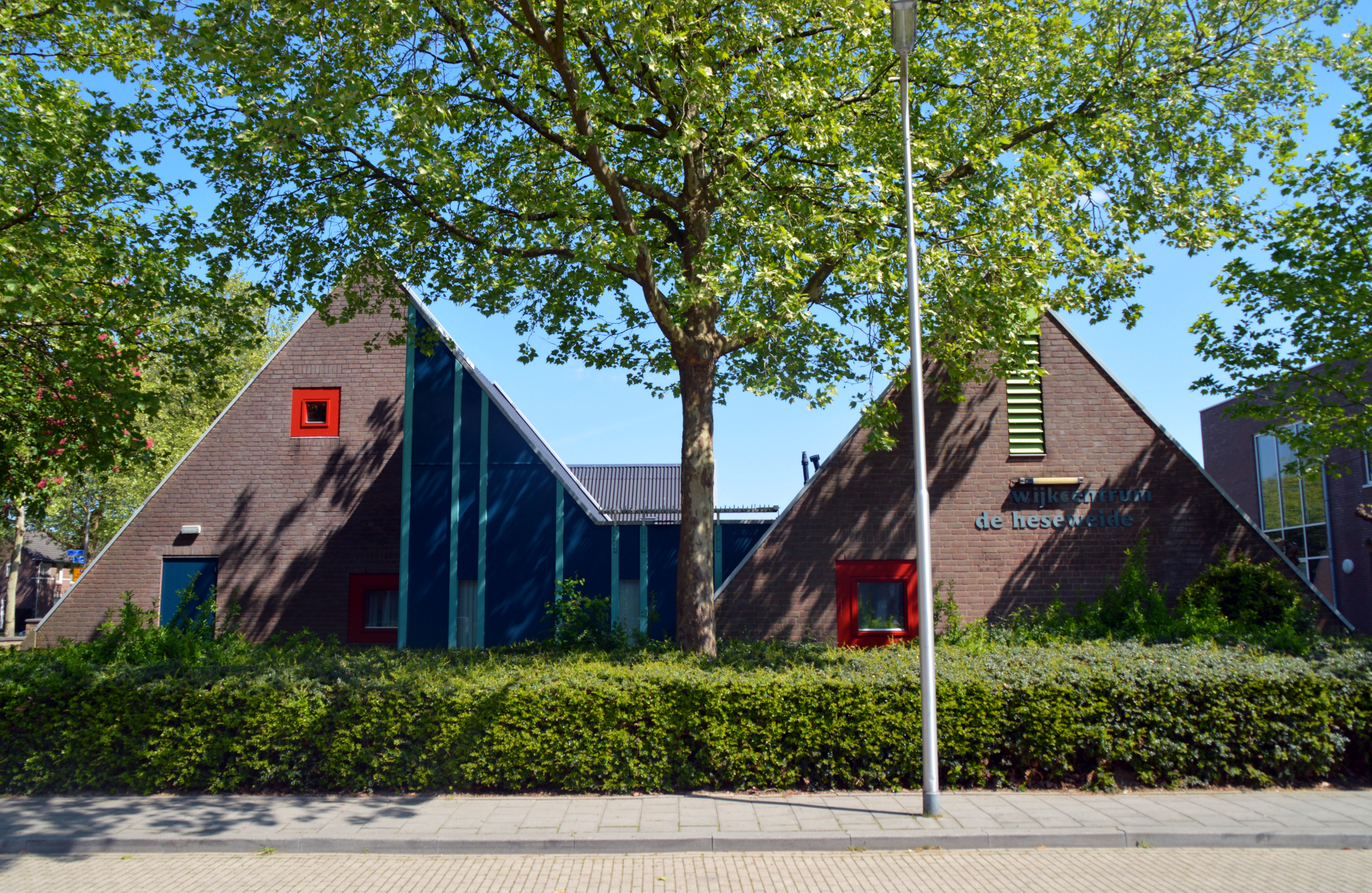 Neighborhood center Hees Heseveld Neerbosch East Nijmegen New West